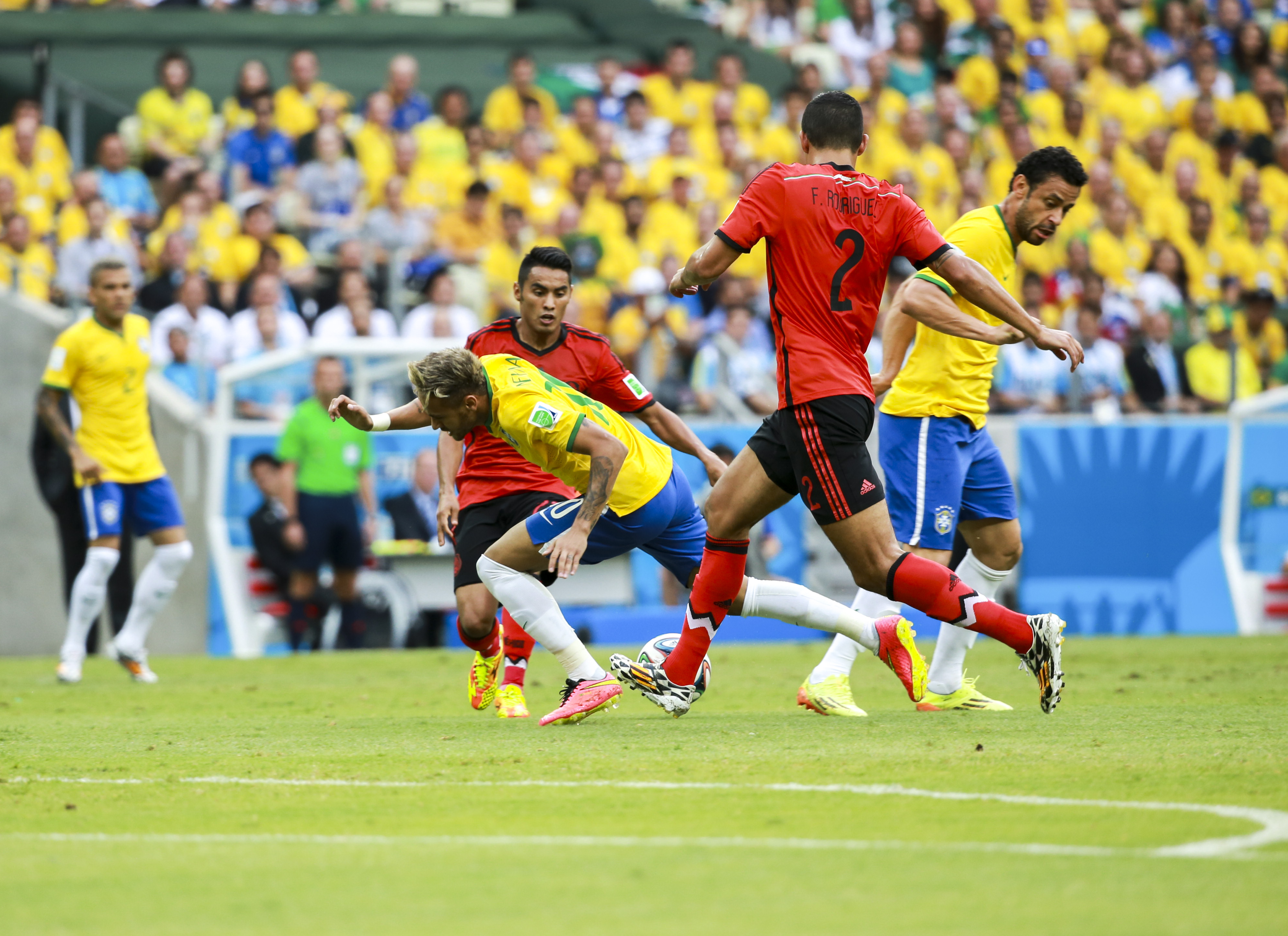 Brazil and Mexico match at the FIFA World Cup 2014-06-17